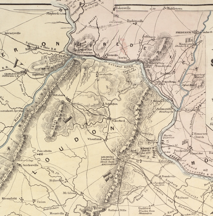 Map of northeast Virginia and part of Maryland showing the location and date of engagements, battles in which cannons were used, country names and boundaries, roads, railroads, towns, drainage, hachures, and a few soundings in the Potomac River. Positions held by Union and Confederate forces are marked by flags.